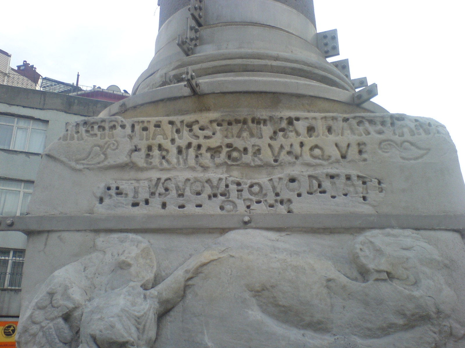 Detail from the base of Column of Marcian in İstanbul. 450 AD